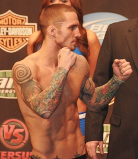 Eddie Wineland WEC 53 Weigh-Ins